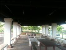 The shade at Jelutong Temple, Malacca